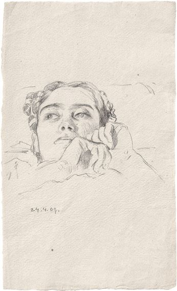 Mileva Roller by Alfred Roller in 1909